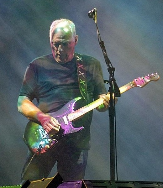 Cropped/edited version of another image